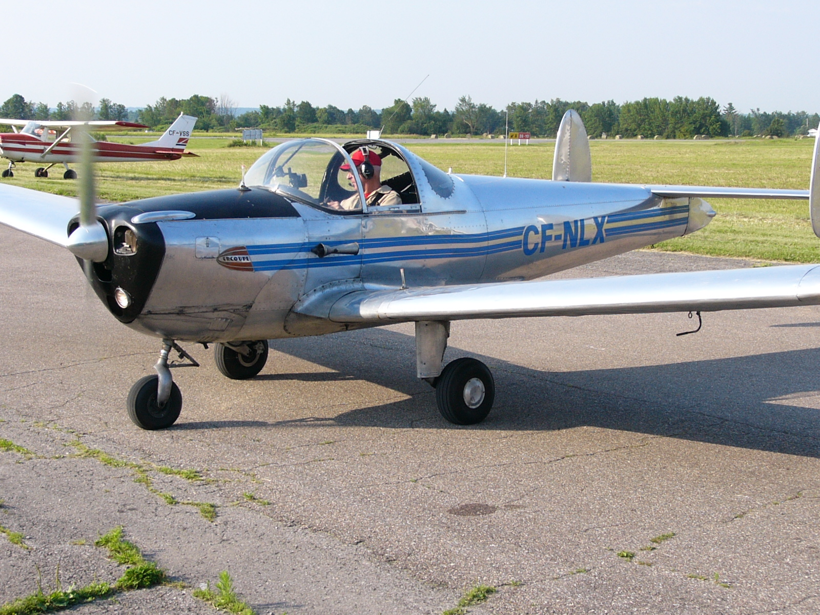 a Forney Aircraft Co F-1 Ercoupe at the Arnprior, Ontario, Canada, fly-in.